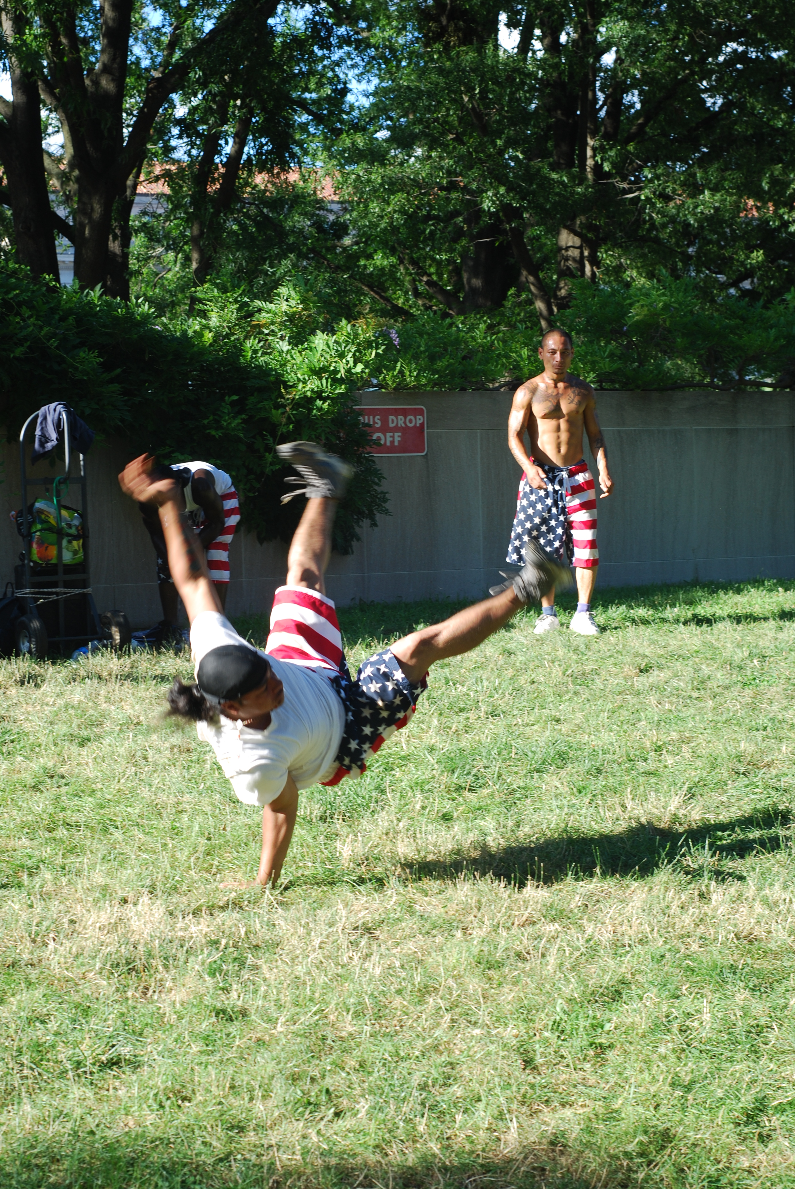 Two Steps Ahead - a break dancing street performance group in front of Natural History Museum at Washington D.C. : Flares move.